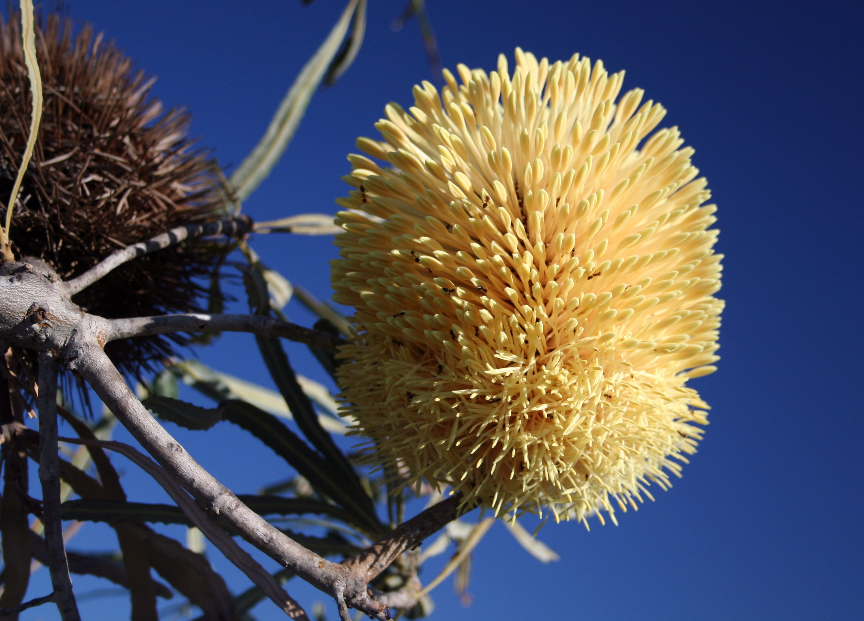 Banksia lindleyana inflorescence. About 1/4 flowers have opened (anthesis). Ants, known pollinators of banksias, trawl through the flowers